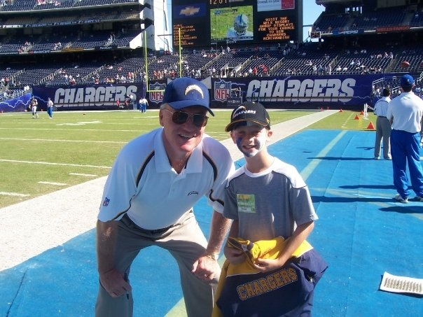 Marty Schottenheimer poses with a young Chargers fan